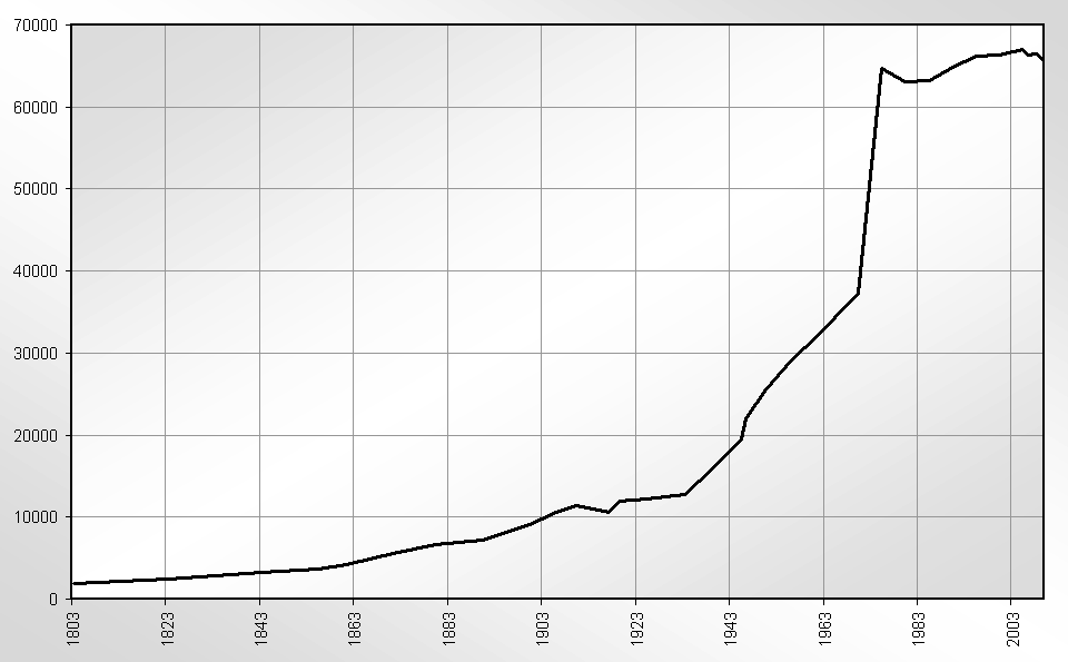 population development of Aalen (1803-2009)